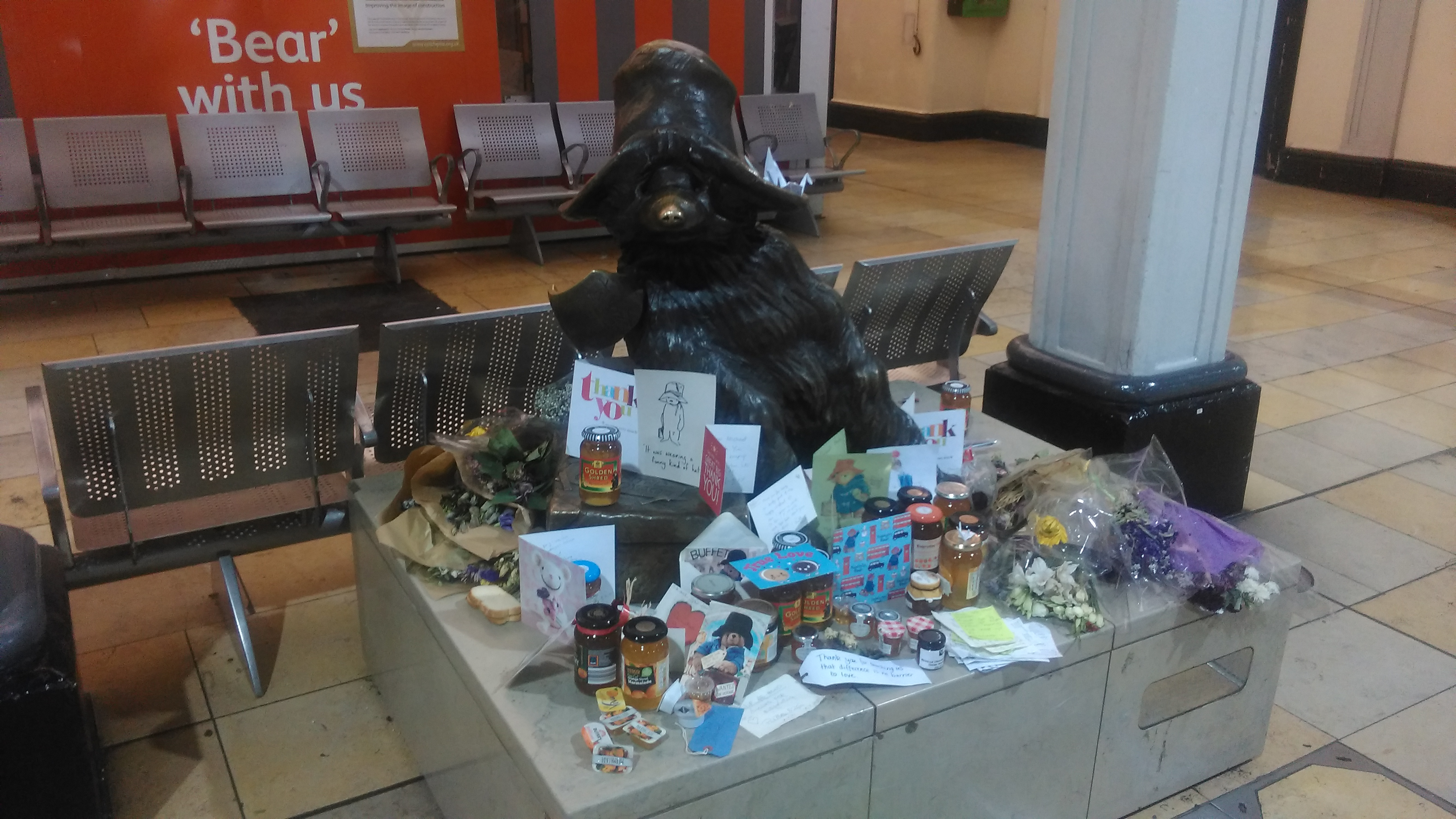 The Paddington Bear statue in Paddington Station, London, United Kingdom after Michael Bond's death on June 27, 2017. Michael Bond is best known for a series of fictional stories for children, featuring the character of Paddington Bear.